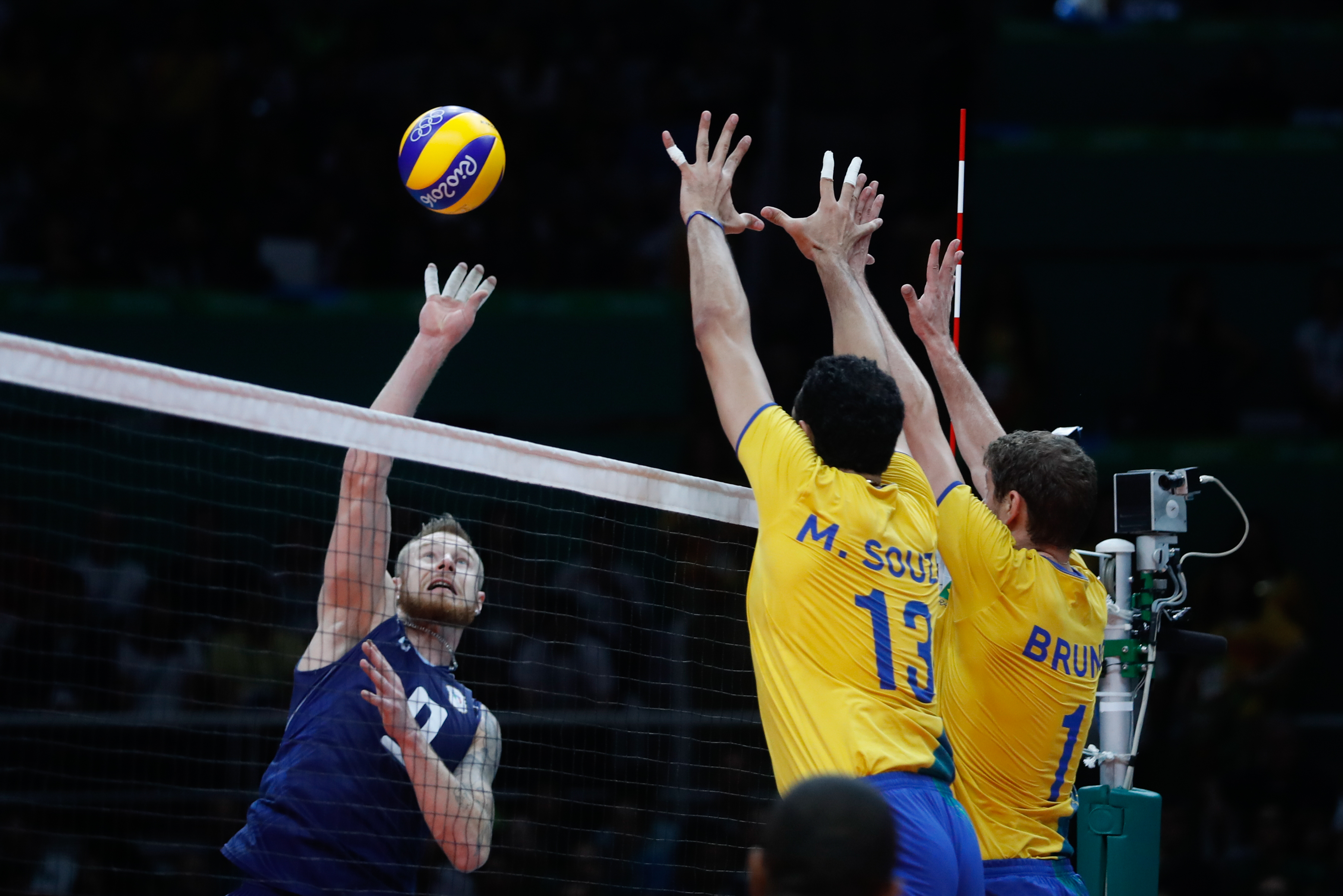 Rio de Janeiro - Seleção brasileira de vôlei disputa contra a Itália a final dos Jogos Olímpicos Rio 2016 no Maracanãzinho(Fernando Frazão/Agência Brasil)